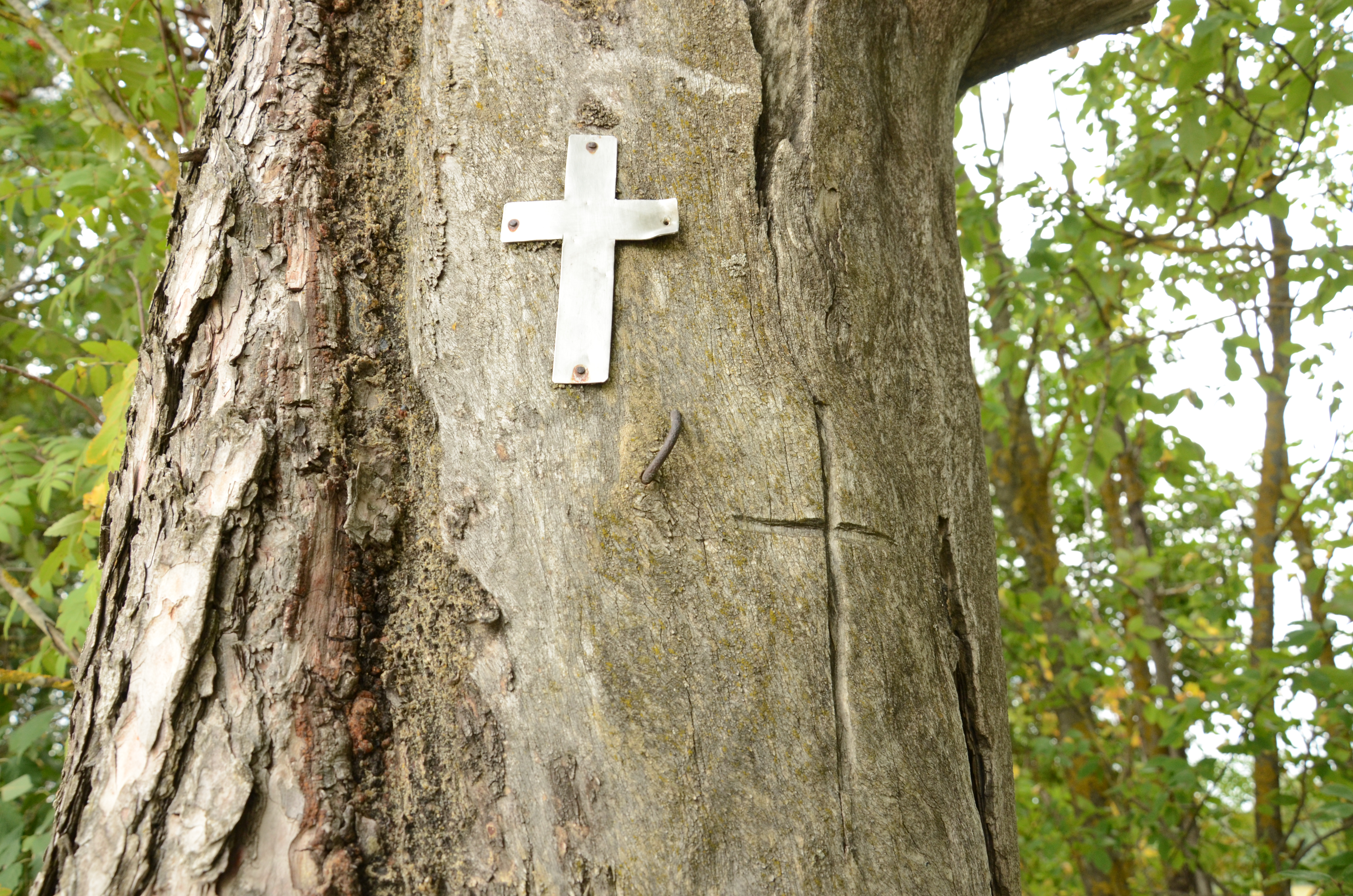 A cross-pine in Jõksi in Põlva County, south-east Estonia (Kanepi parish), has seven crosses, including the unique one made of sheet metal.